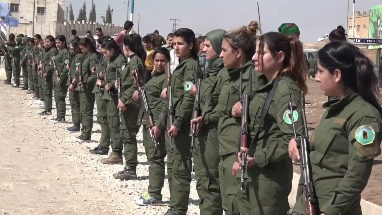 Members of the Rojava police force (Asayish) in the city of Kobanî in northern Syria.